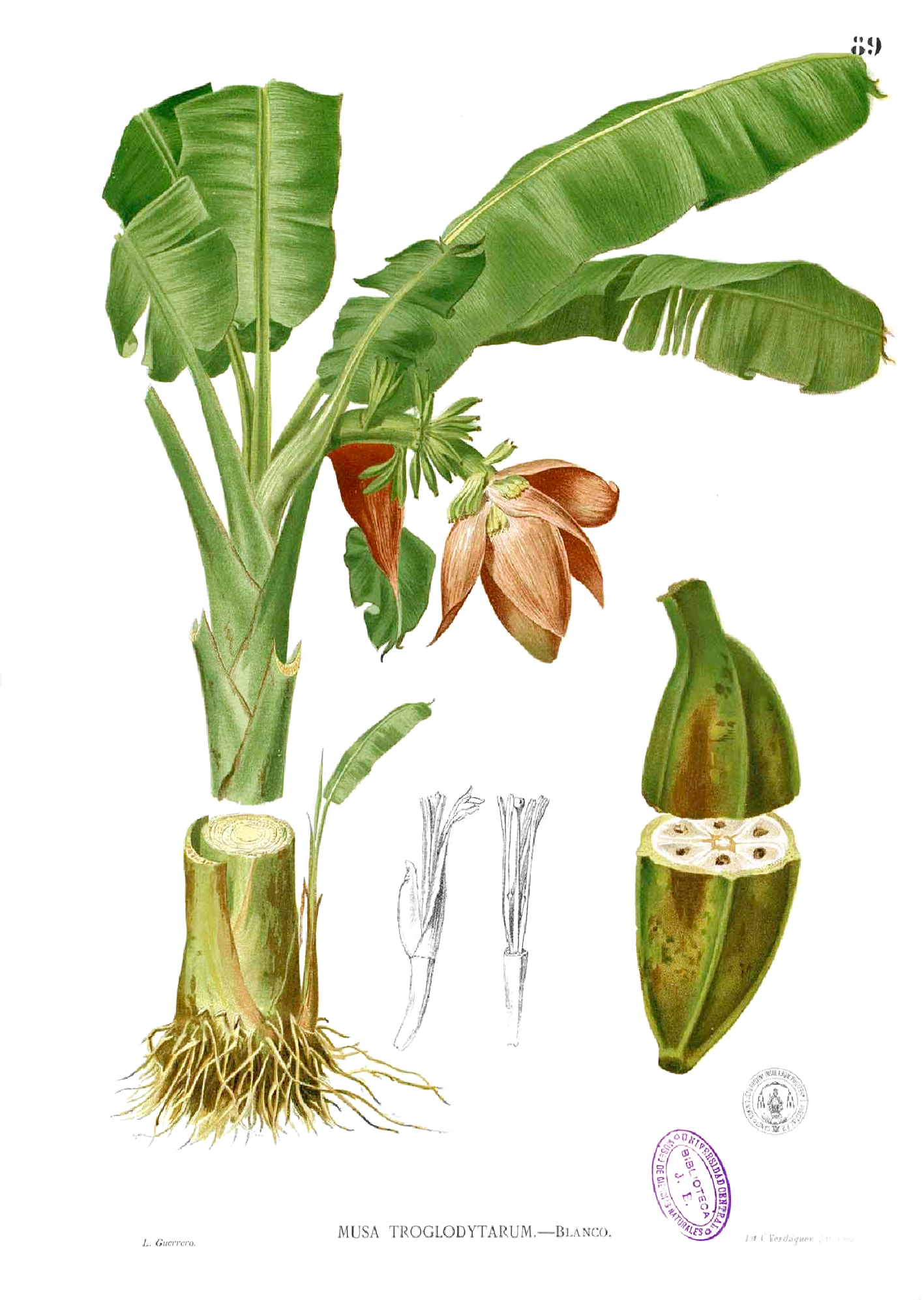 Musa troglodytarum Plate from book